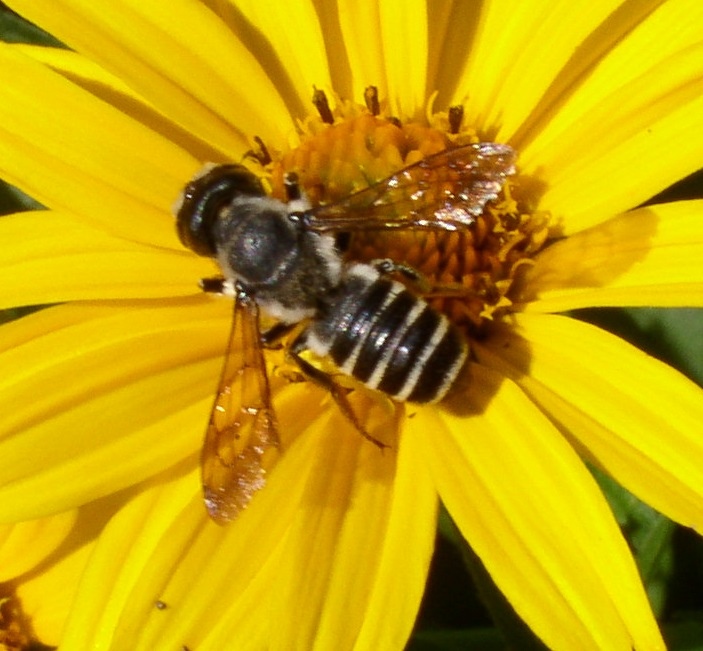 Megachile pugnata female on sunflower. Pennypack Restoration Trust, Montgomery County, Pennsylvania, USA.